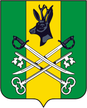 Shilka (Chita oblast), coat of arms